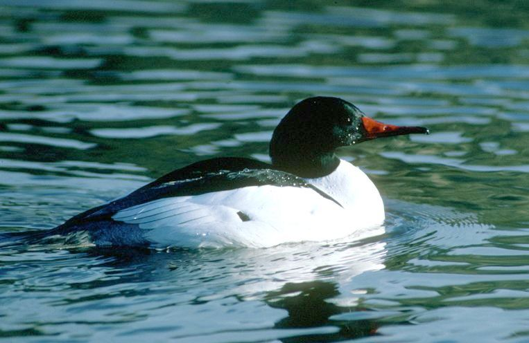 Common Merganser, male, California, Lower Klamath National Wildlife Refuge, Migratory birds